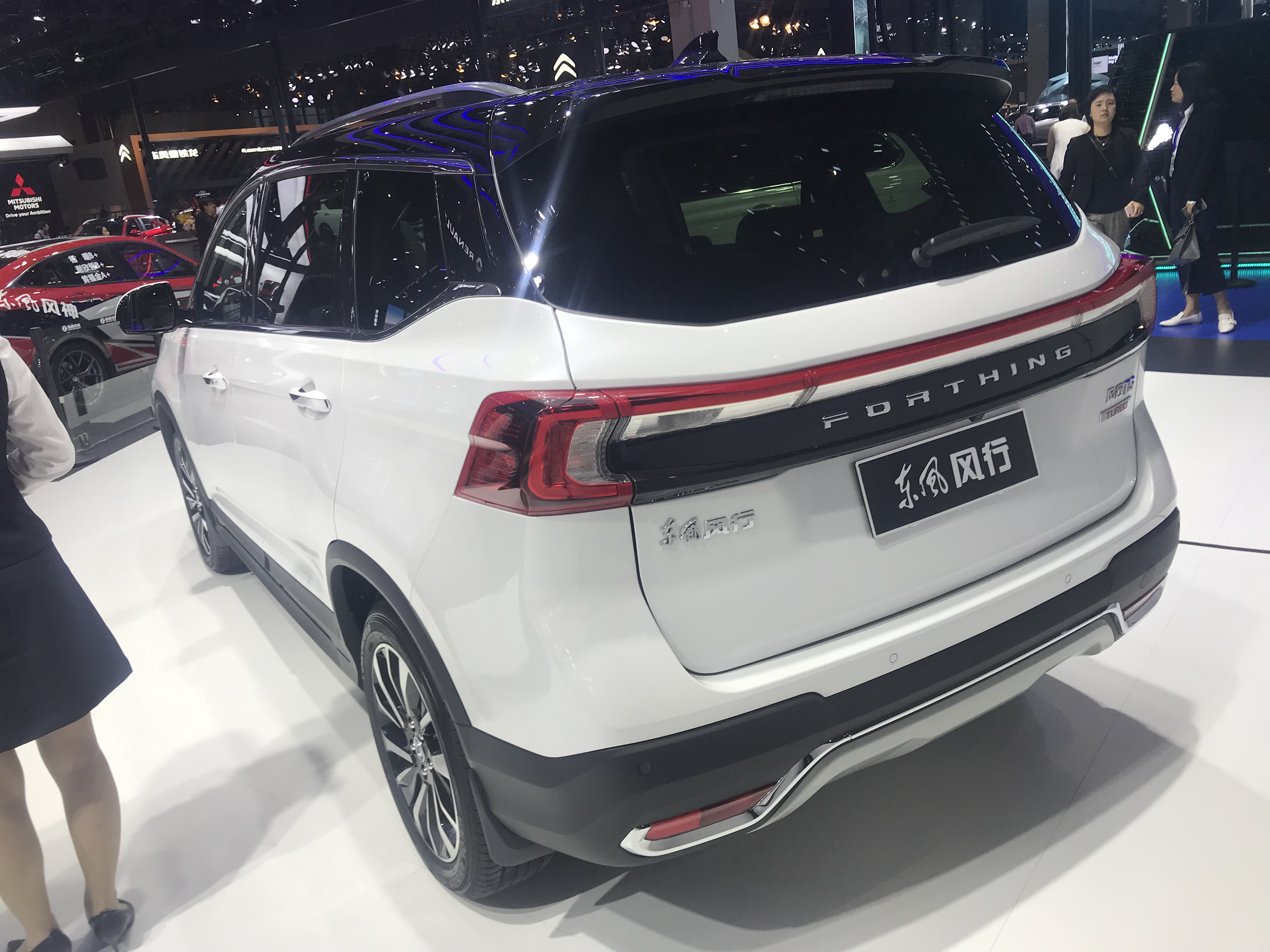 Forthing (Dongfeng Fengxing) T5